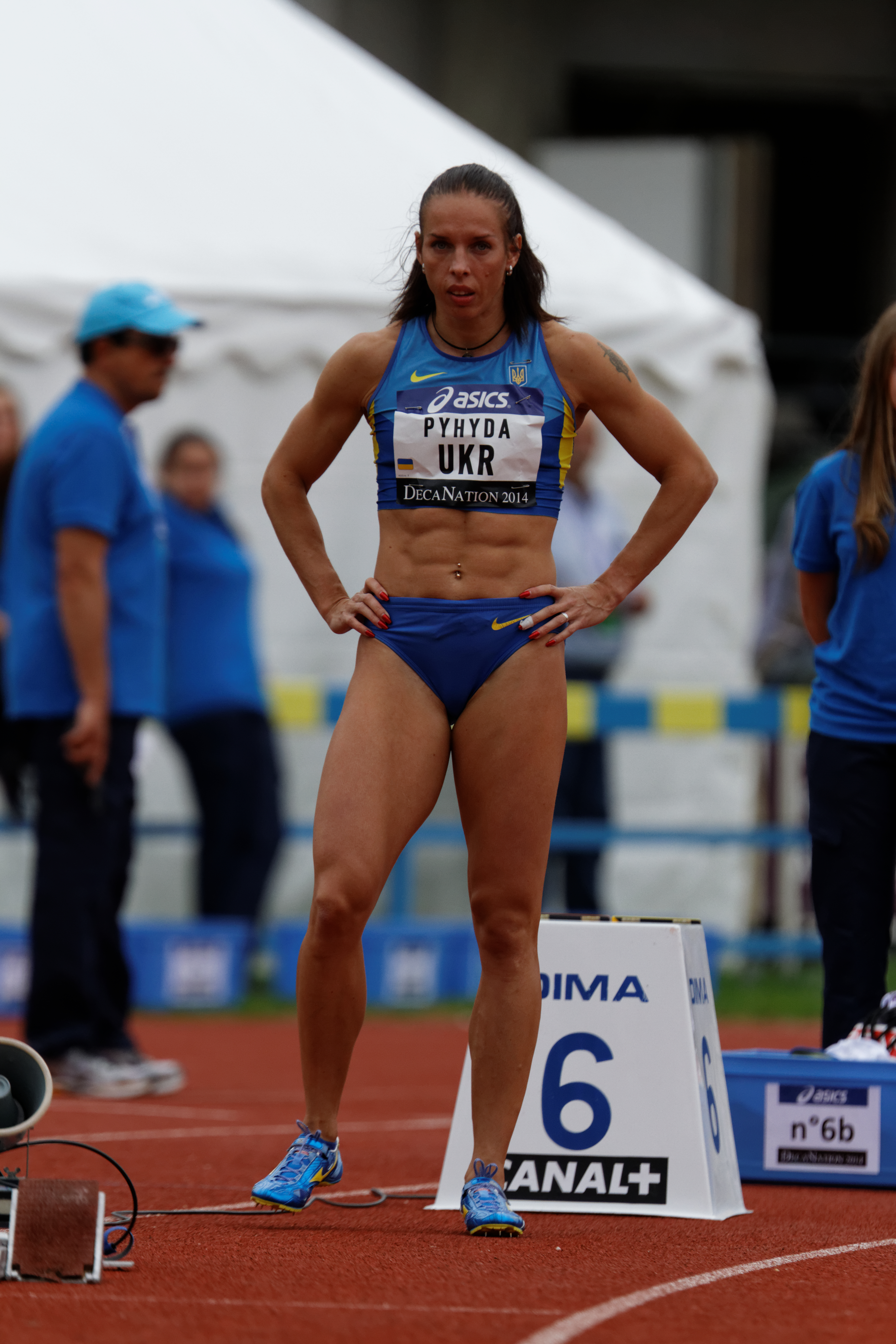 DécaNation 2014